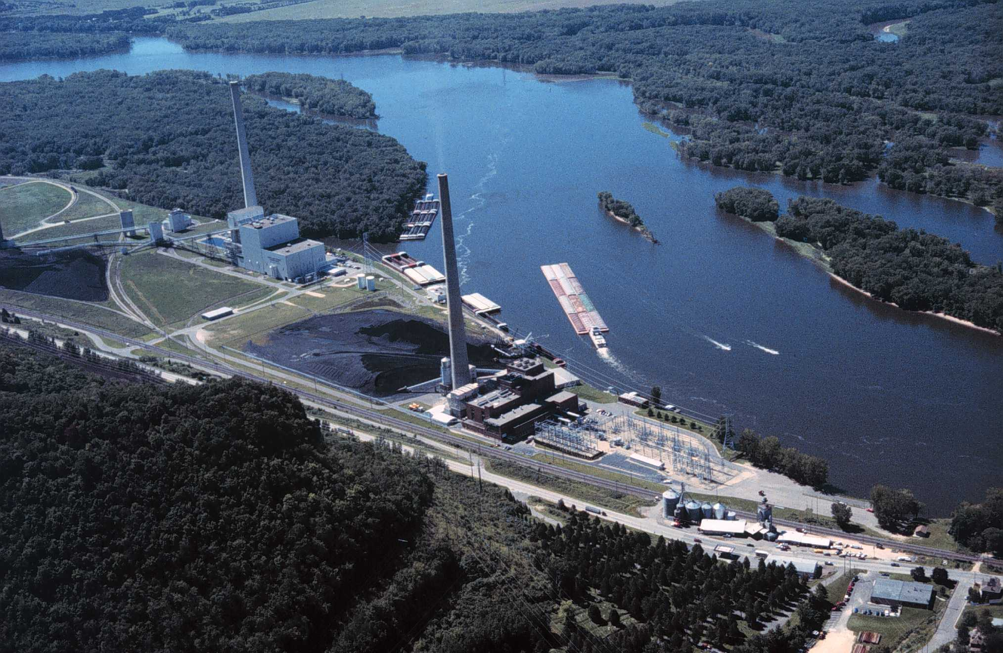 Mississippi River and Alma Power Station (near) and John P. Madgett Station (far).